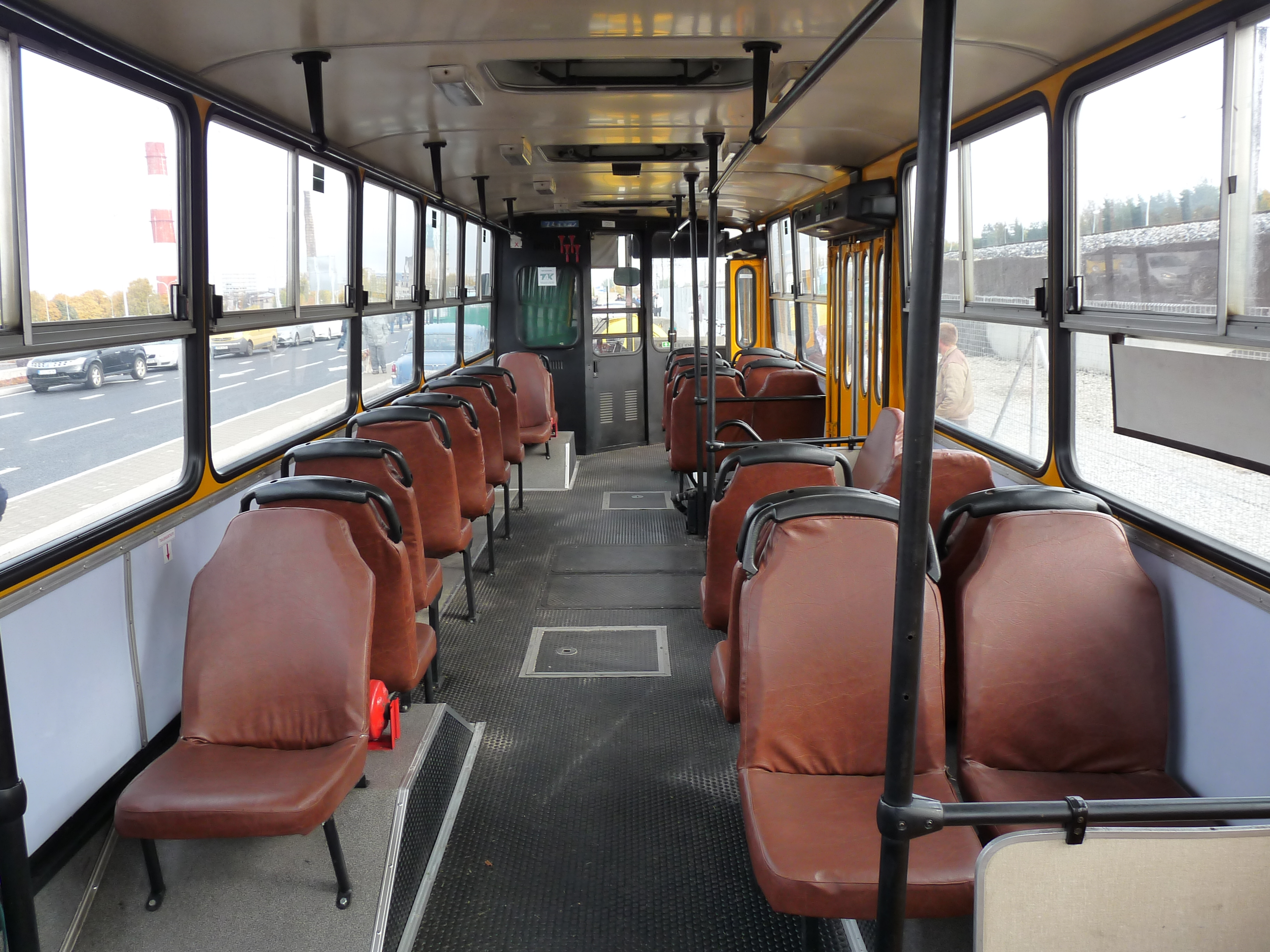 Ikarus 260 in Tallinn, Estonia